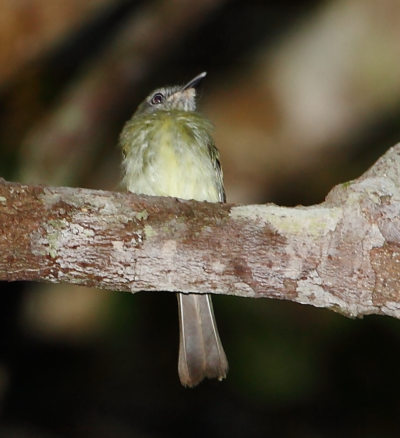 White-eyed Tody-Tyrant at Manacapurú - AM - Brazil